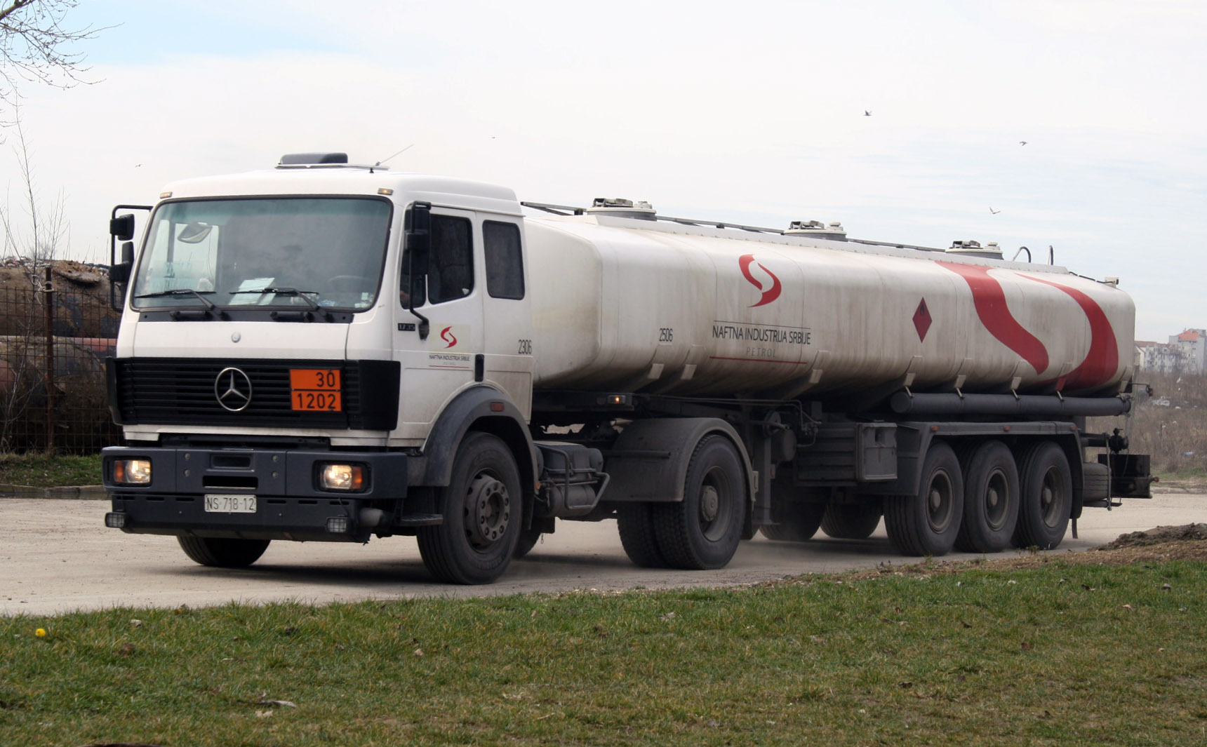 NIS Serbian oil company Mercedes-Benz 1735 tanker truck.